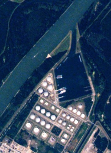 Oilharbour of Karlsruhe as seen on a photo taken from ISS